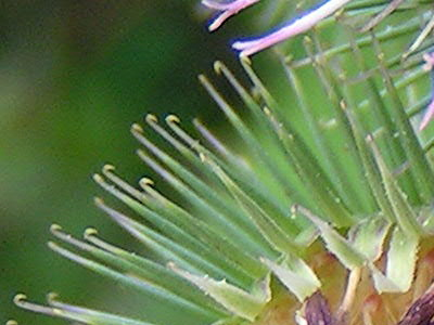 Arctium lappa or greater burdock. This detail shows the tiny hooks, which inspired the invention of velcro ("hook and loop fasteners").